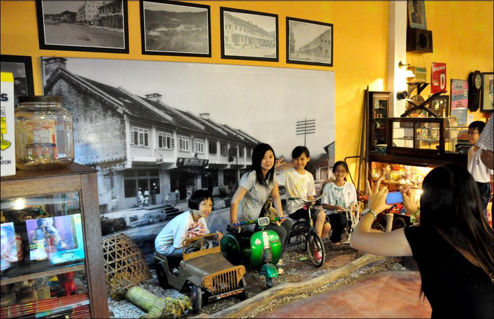 The TIME TUNNEL museum is located within the Kok Lim Strawberry Farm, UT/MR/F-255, Jalan Sungei Burung, 39100, Brinchang, the Cameron Highlands, Pahang, West Malaysia.